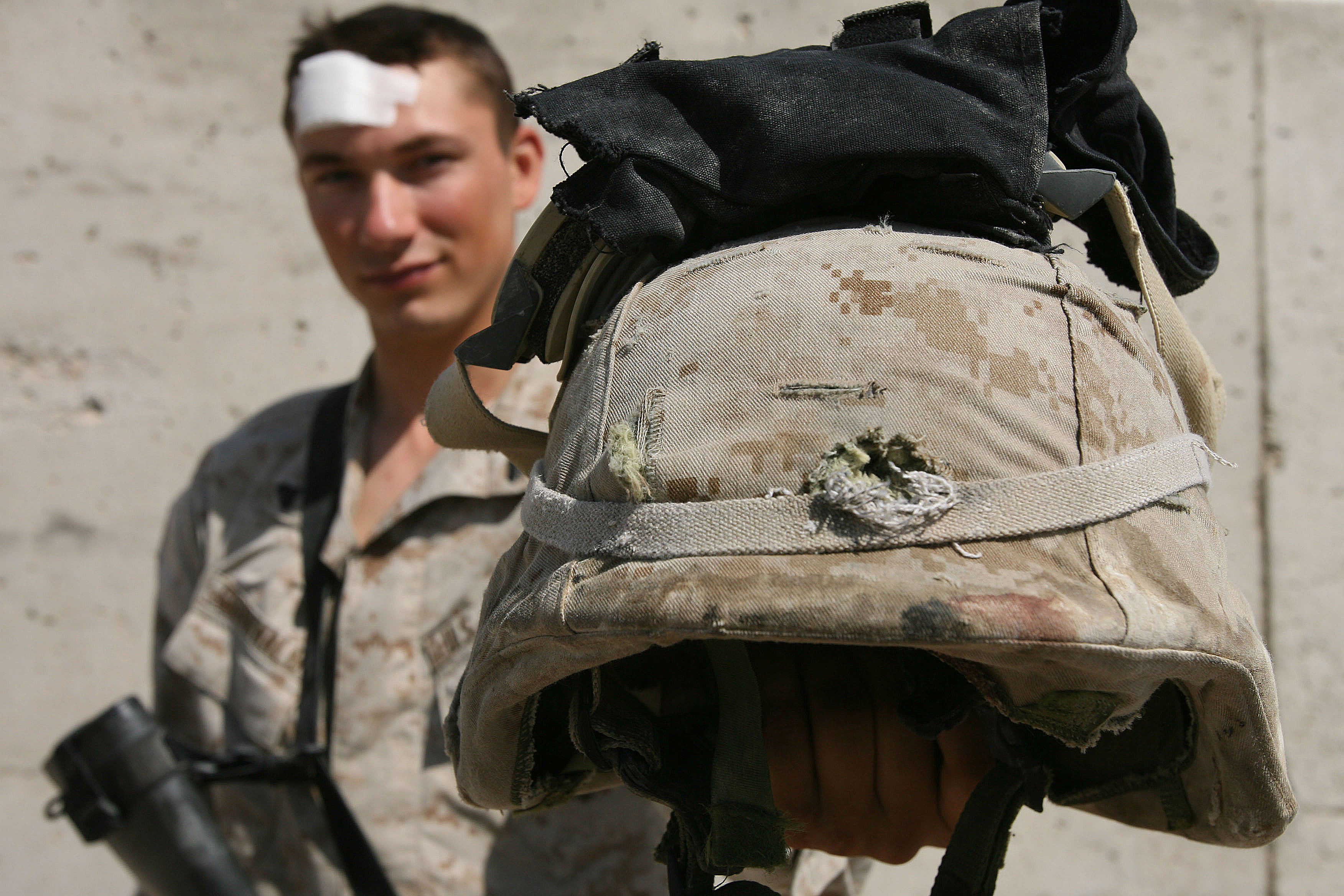 Cpl. Daniel M. Greenwald, an assaultman from Rockland County, N.Y. attached to F Company, 2nd Battalion, 8th Marine Regiment, Regimental Combat Team 5 holds up the Kevlar helmet that saved his life. He was shot in the head by an insurgent sniper while conducting a vehicle checkpoint. He escaped with only a minor gash on his forehead.